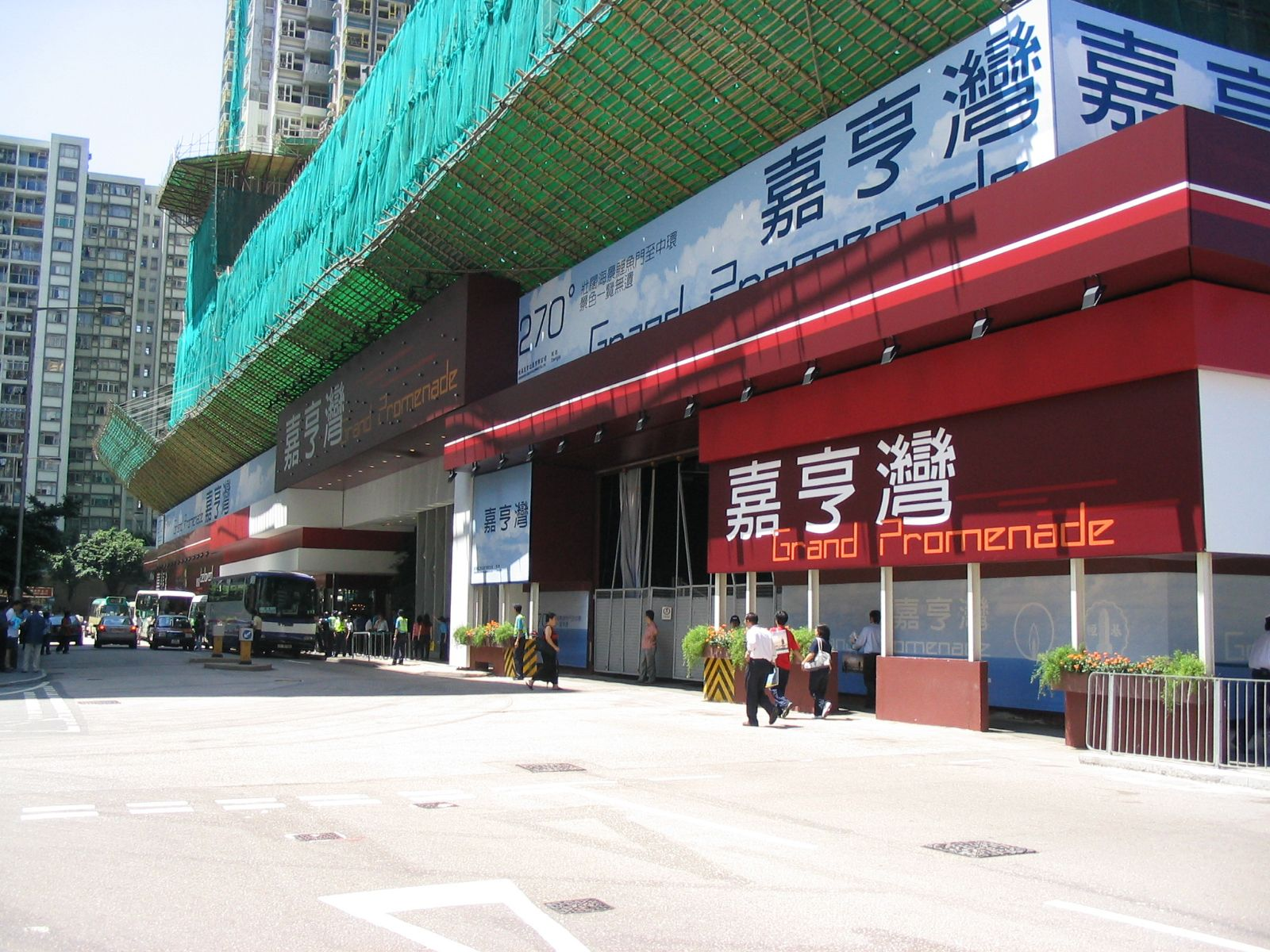 嘉亨灣售樓處 Showflat of Grand Promenade